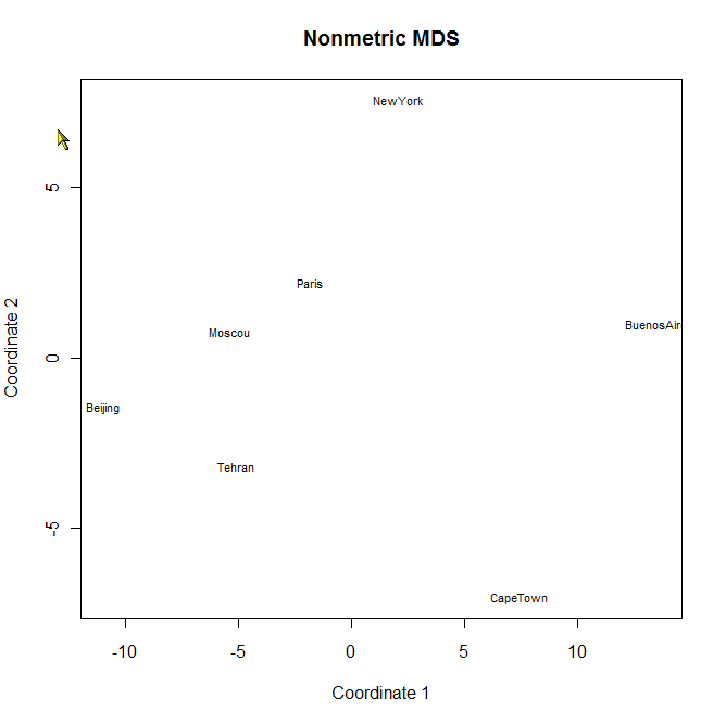 Non metric MDS of some worldwide towns ranked by distances (1 for the smallest, 21 for the greatest) with help of Quick-R site guide